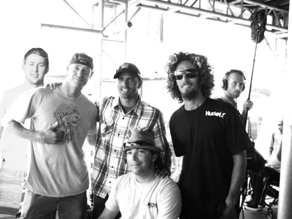 Kelly Slater with other pro surfers and fans